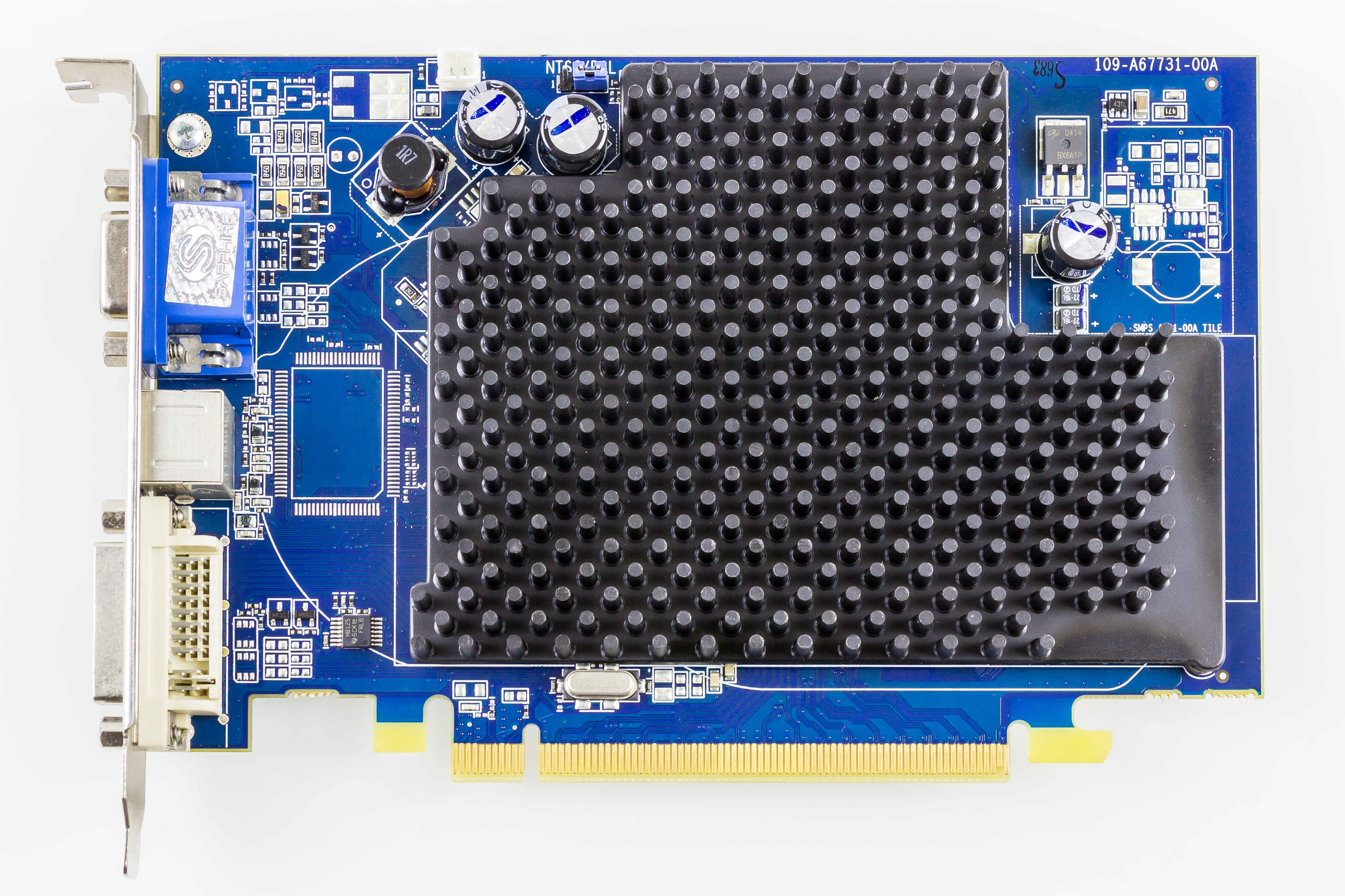 ATI Radeon X1300 256MB